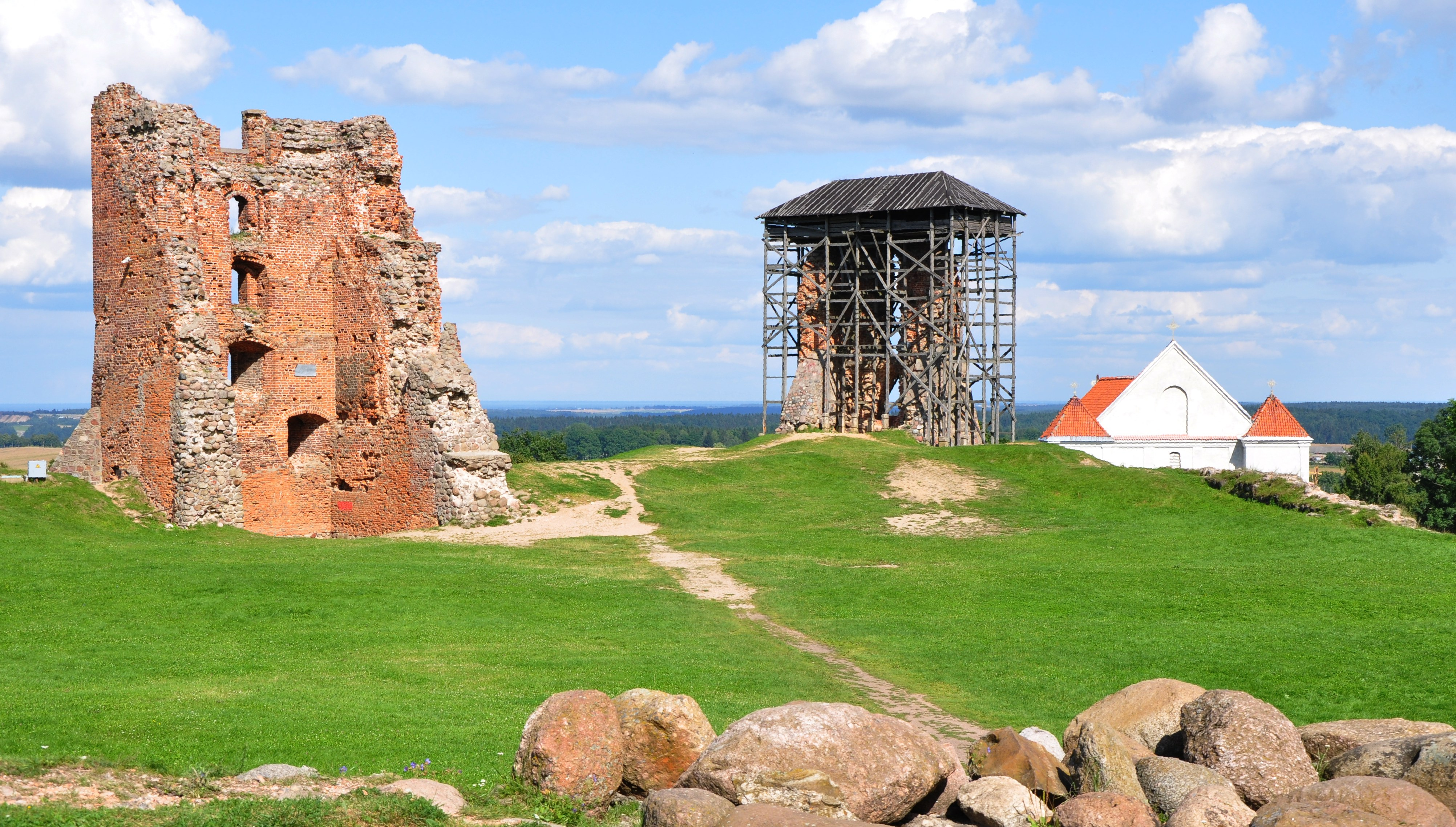 Беларуская (тарашкевіца): Рэшткі замка. г. Наваградак This is a photo of Belarusian heritage monument. Reference number: 411Г000404 ( WLM)